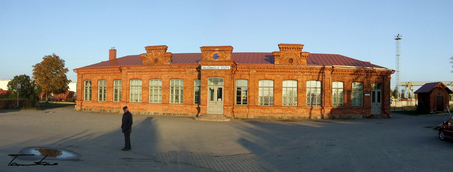 The train station of Jonava, Lithuania.